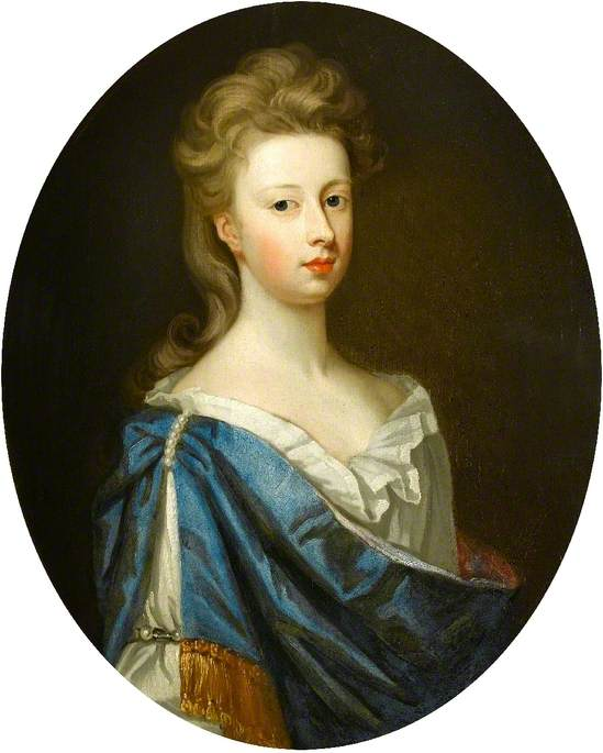 Portrait of Elizabeth Cutts